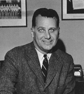 Photograph of Missouri basketball coach Bob Vanatta